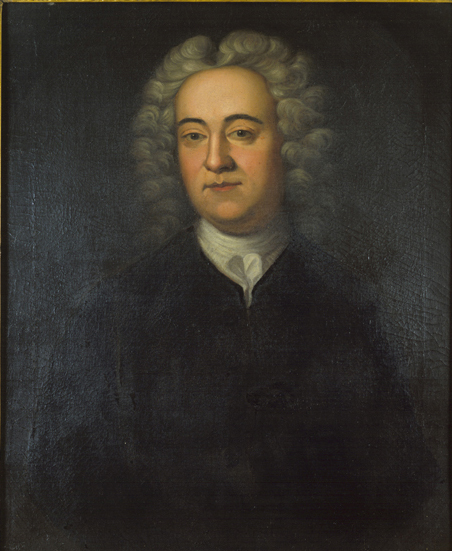 Portrait of Daniel Dulany the Elder (1685–1753). Oil on canvas by Justus Engelhardt Kühn.